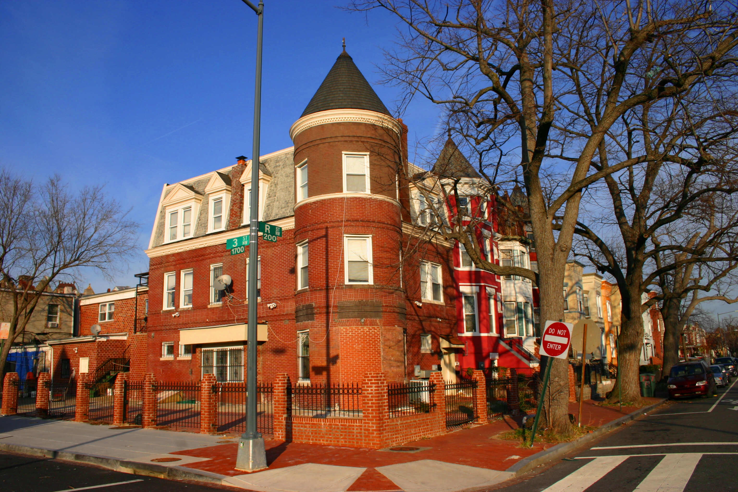 Truxton Circle 3rd and R Streets, NW . WDC . Friday afternoon, 10 February 2006 . See photo at Truxton Circle WDC series by Elvert Xavier Barnes Photography at